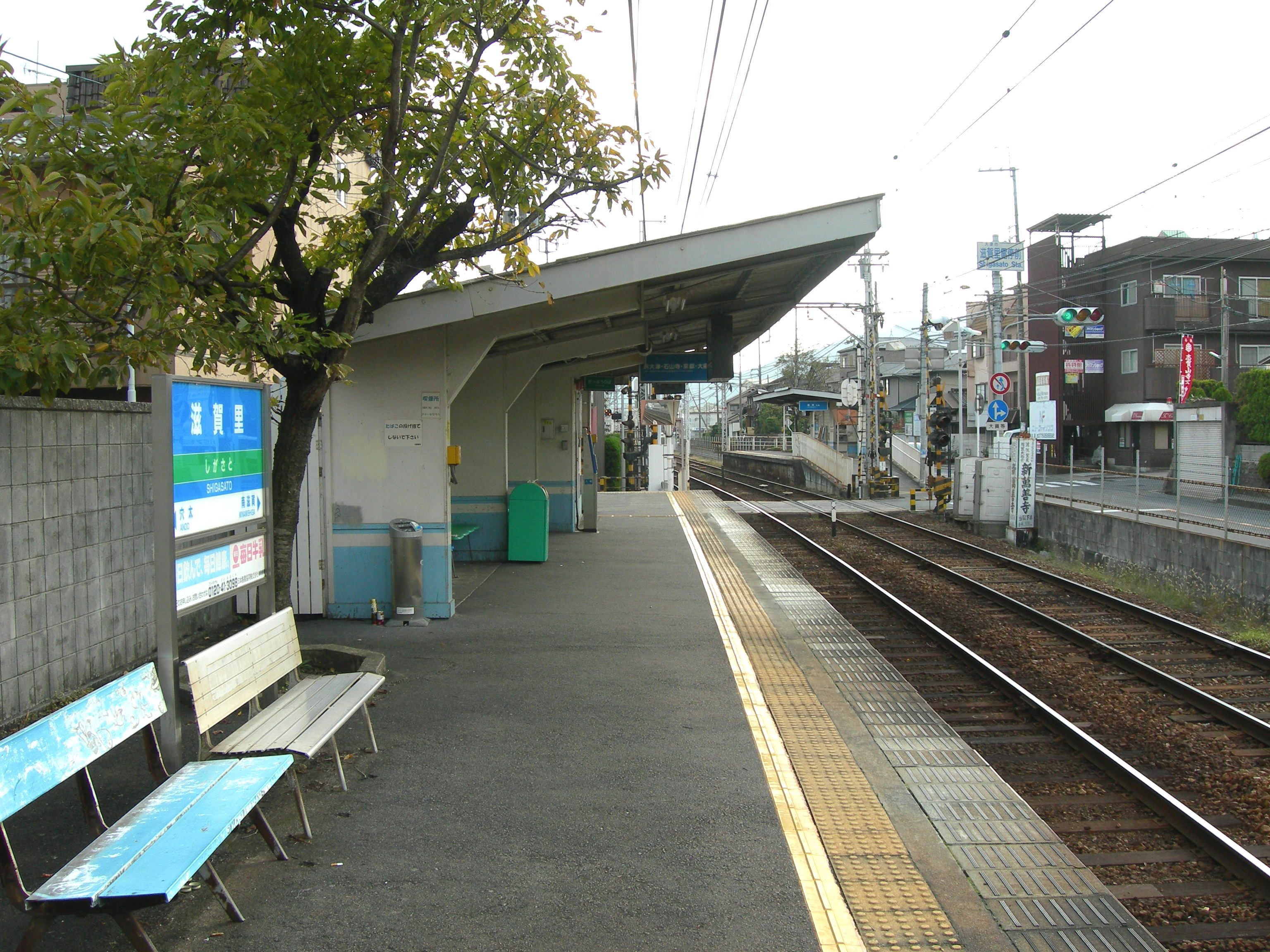 Keihan Shigasato Station platform